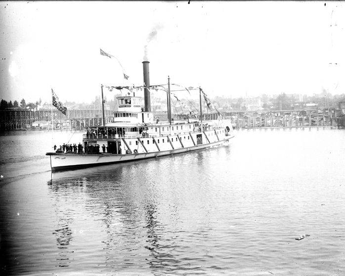 Harvest Queen (sternwheeler) ca. 1900, probably at Portland, Oregon on Willamette River.